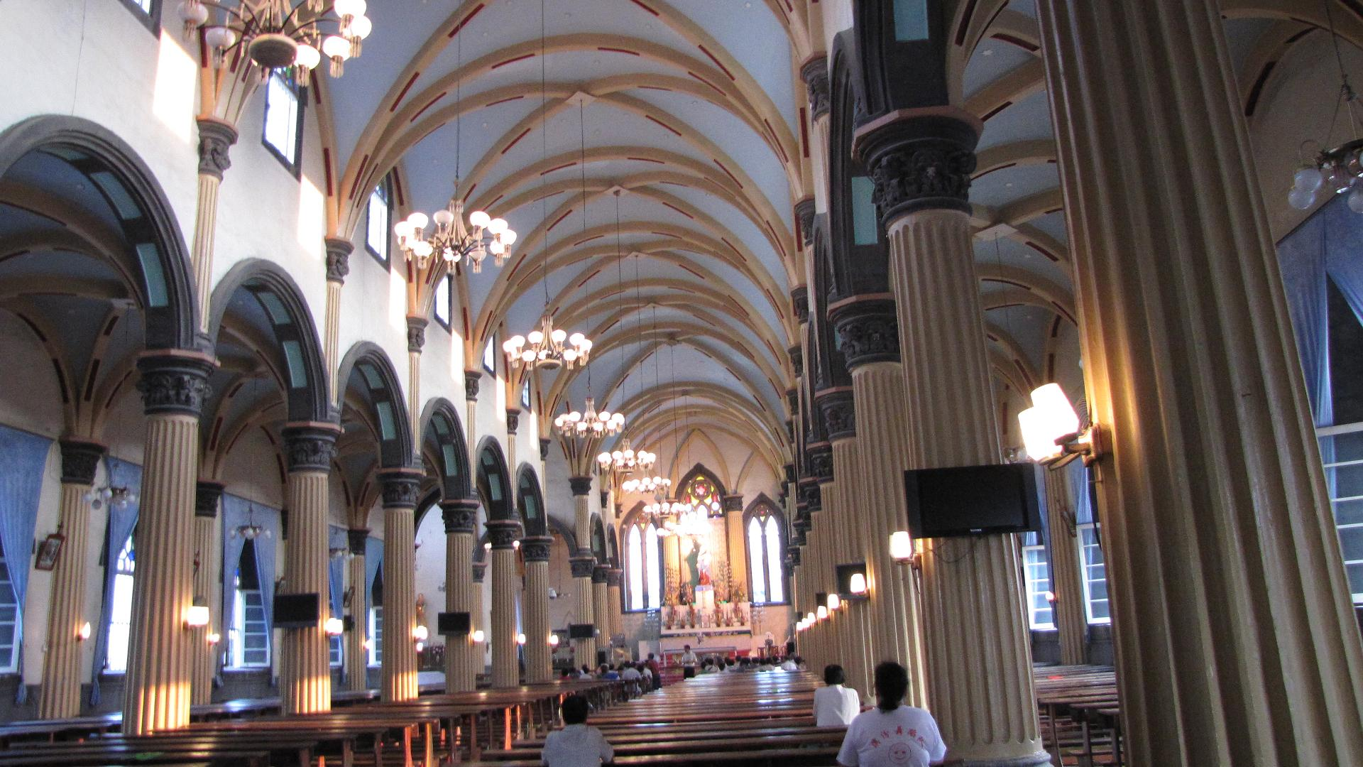 The interior of Saint Dominic Cathedral of Fuzhou (Fanchuanpu Cathedral)